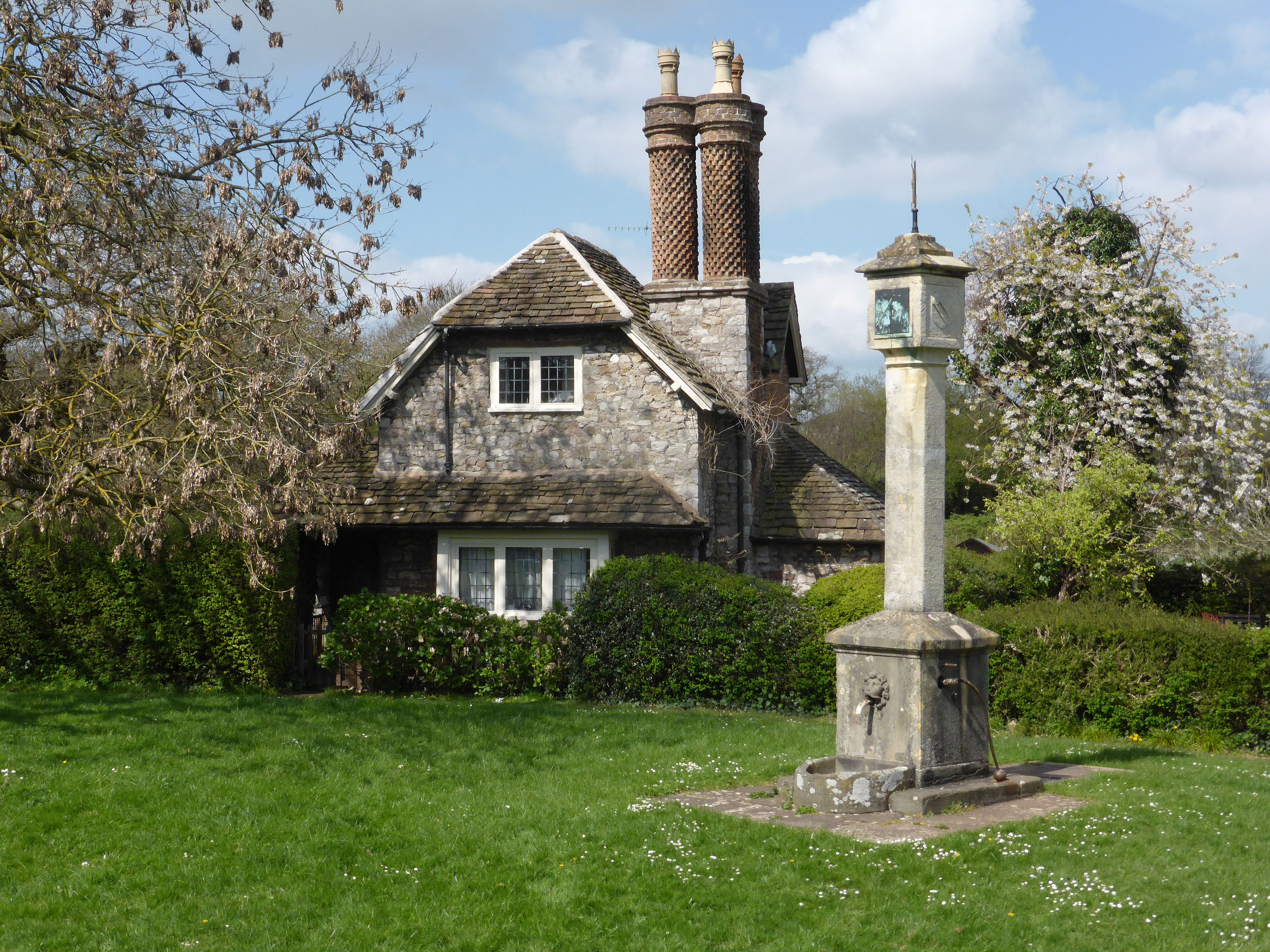 Dial Cottage (7 Hallen Road) at Blaise Hamlet, Henbury, Bristol, England.